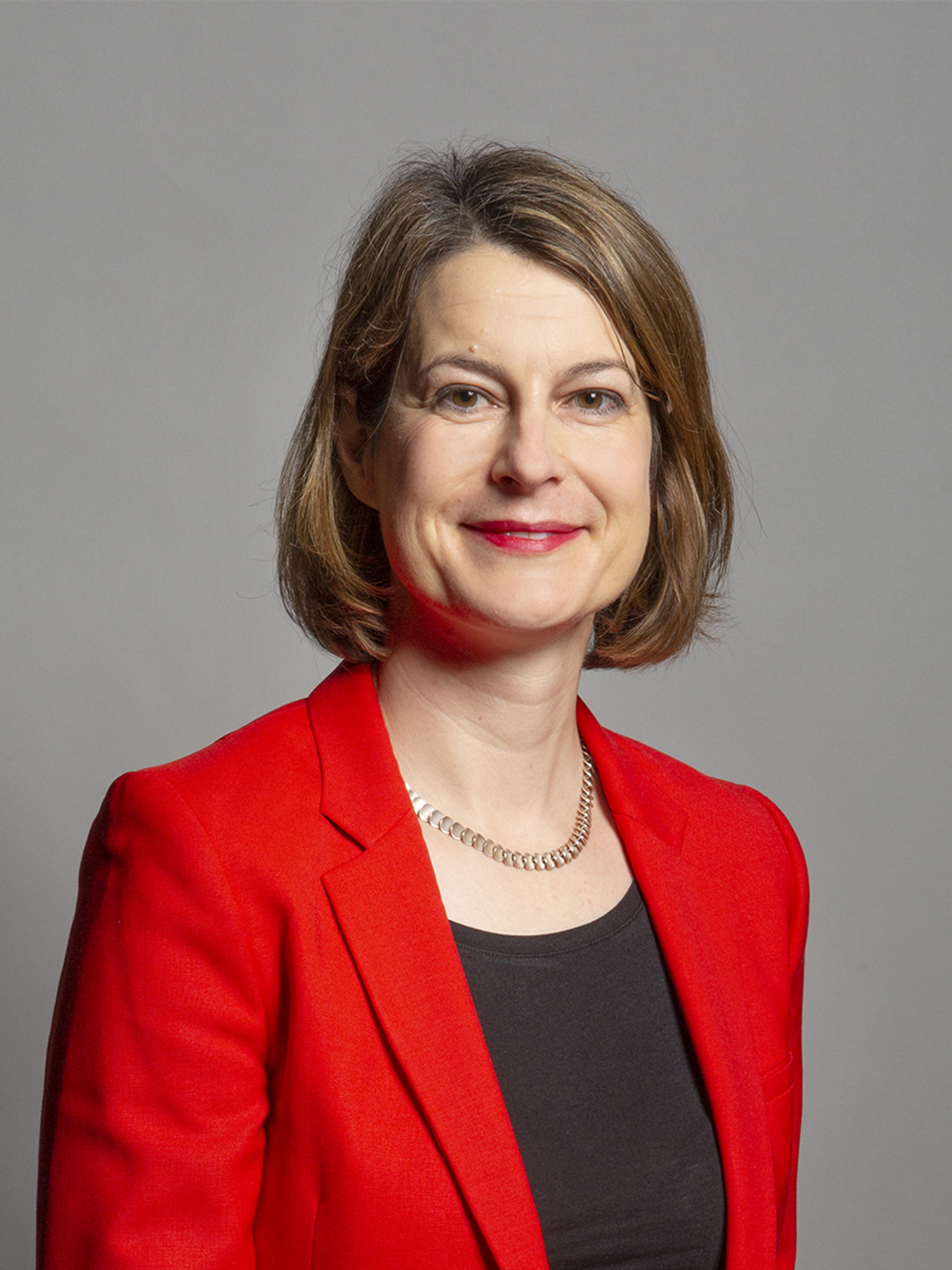 Official portrait of Helen Hayes MP 3×4 portrait of Helen Hayes